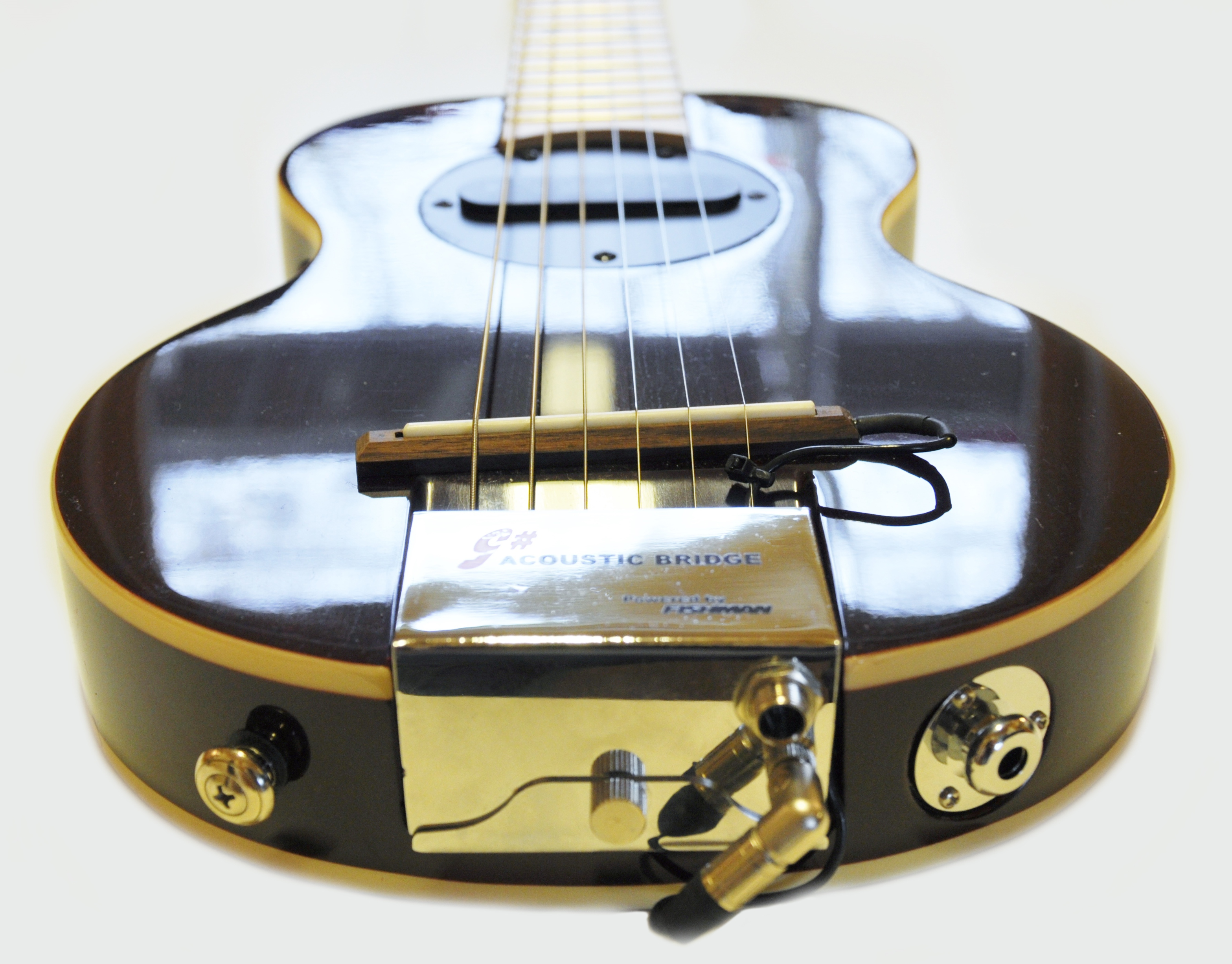 G-Sharp guitar with acoustic bridge, built by Øivin Fjeld.